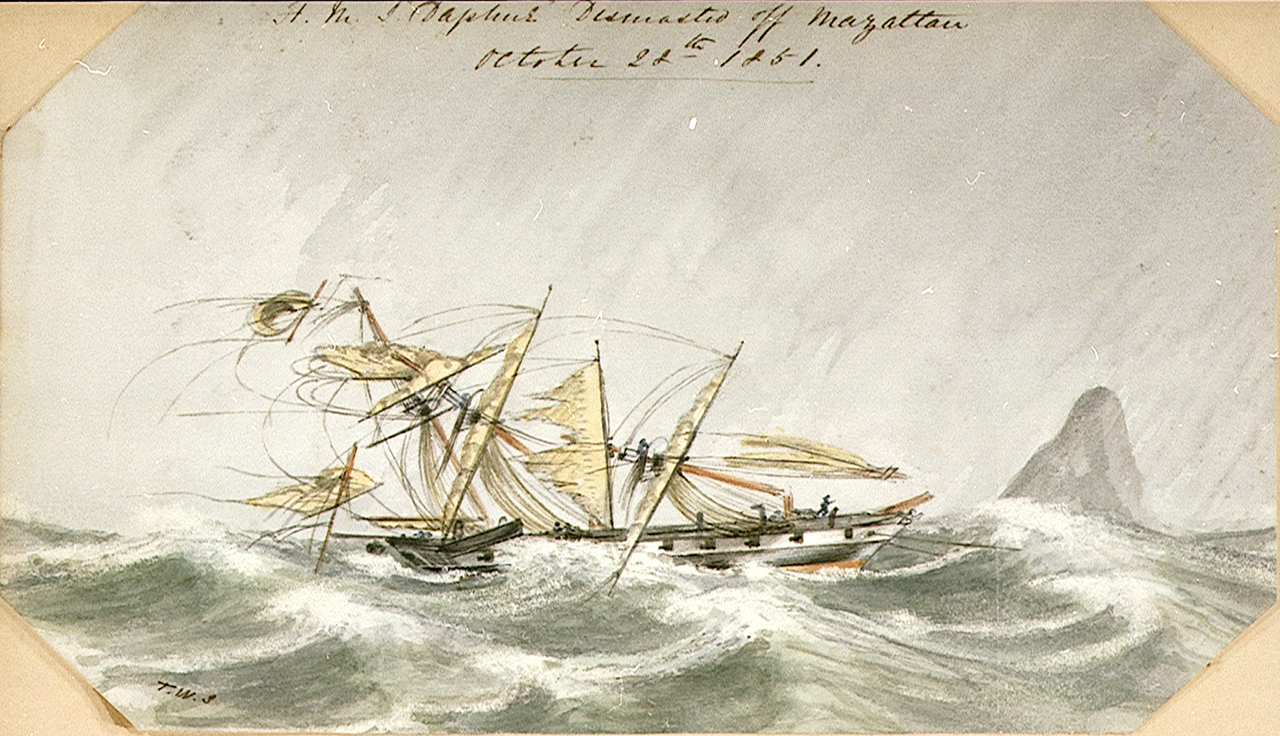 H. M. S. Daphne Dismasted off Mazattan [Mazatlan] October 28th 1851 Drawing signed 'T.W.S' which records the same incident drawn (from the other side) by the captain of the ship, Edward Gennys Fanshawe, for which see PAD4669 and his related account of it. The artist was possibly someone else in the crew, given that 'Daphne' was on independent service in the Pacific and at Mazatlan on her own when caught in the hurricane that dismasted her. One man died of injuries sustained when her masts came down and Fanshawe was trapped in the debris for some time. Fortunately the ships' anchors held, unlike many other vessels driven ashore. Following the storm Fanshawe obtained the mast of a wrecked schooner to replace his own and returned jury-rigged to England round Cape Horn shortly afterwards. 'Daphne's' figurehead, visble here, is also in the collection.